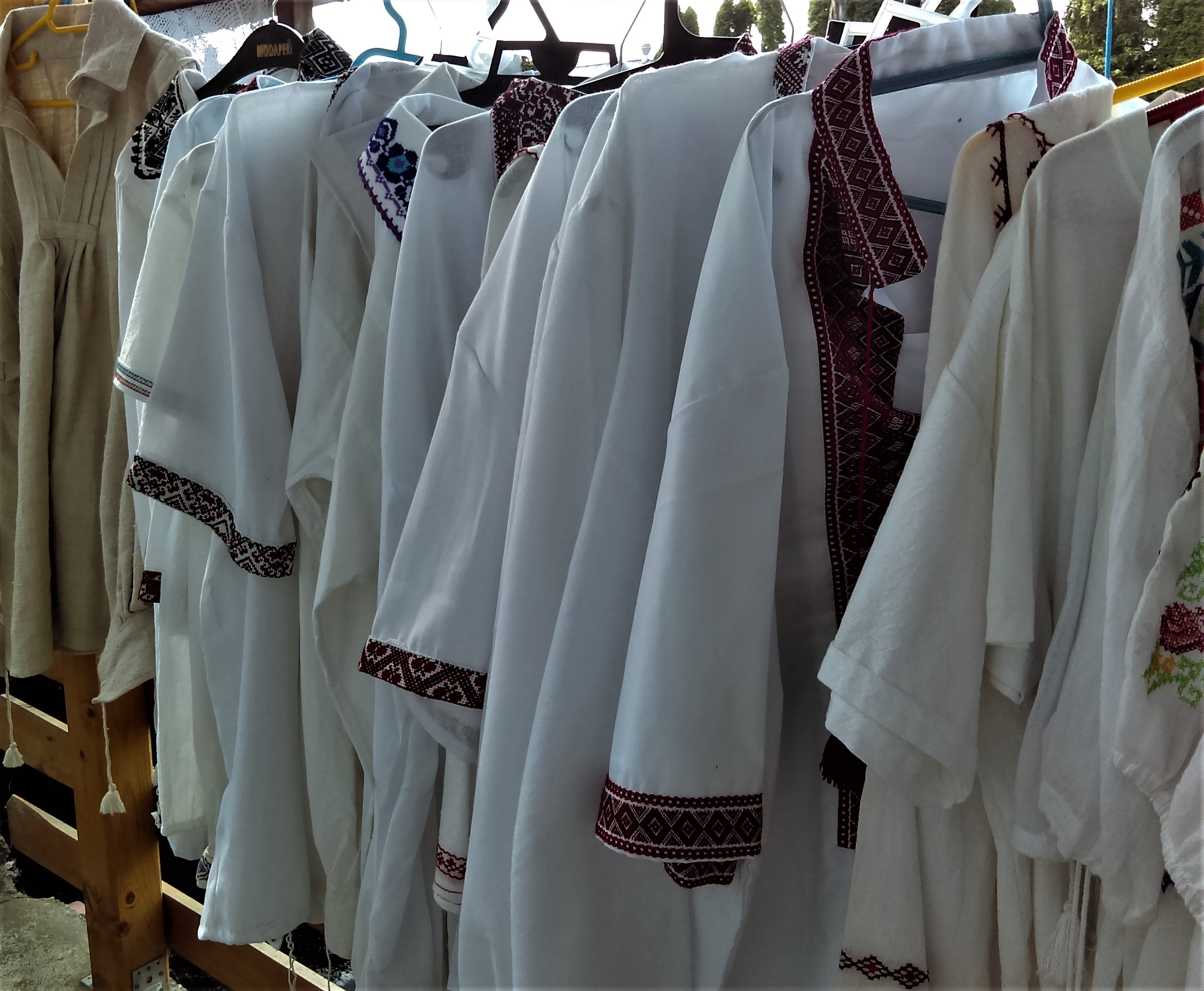 Stylized shirts selling as souvenirs next to Merry Cemetery in Săpânța, Maramureș, Romania